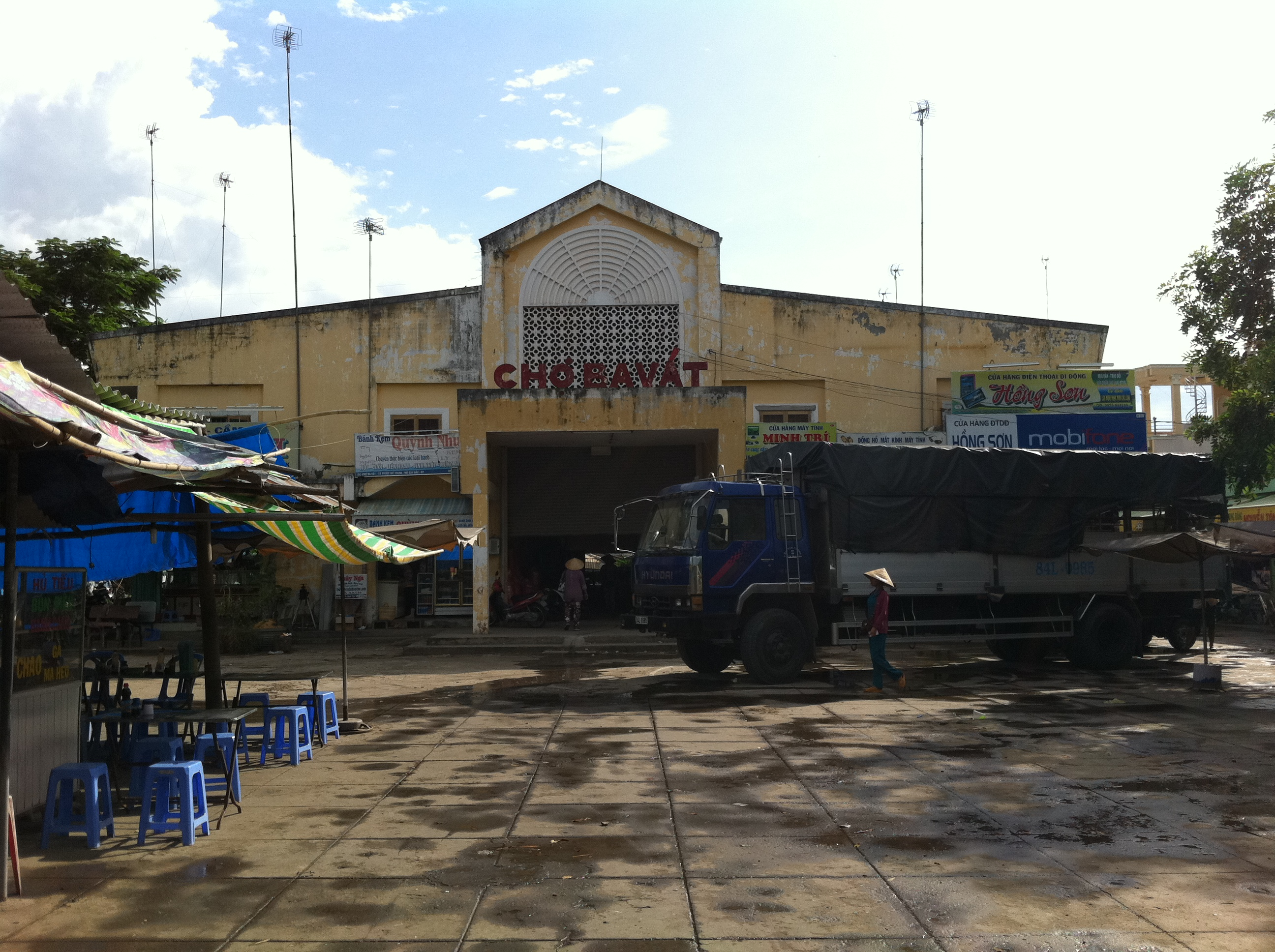 Ba Vat market in Phuoc My Trung, Mo Cay Bac District, Ben Tre province, Viet Nam